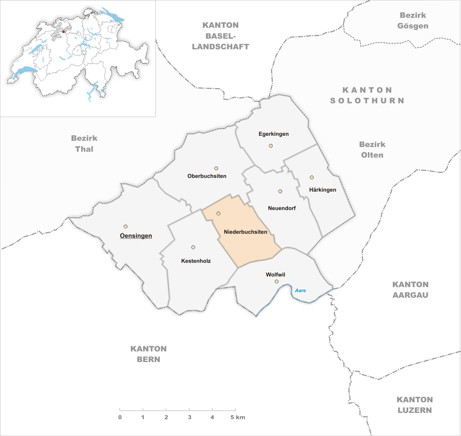 Municipality Niederbuchsiten